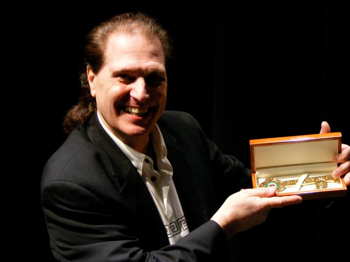 Adrian Baker receives the Key to the City of Hickory, NC, March 19, 2011.